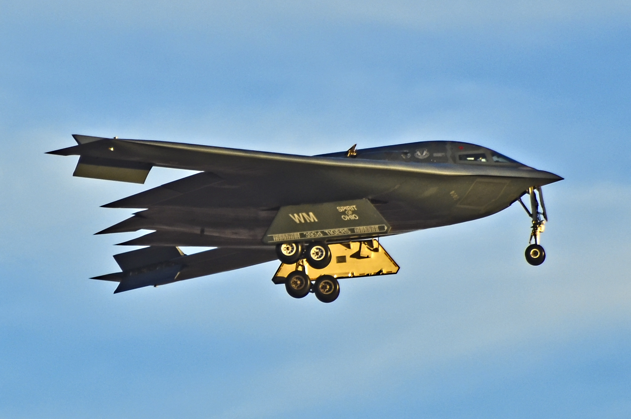 TDelCoro Red Flag 14 January 27, 2013